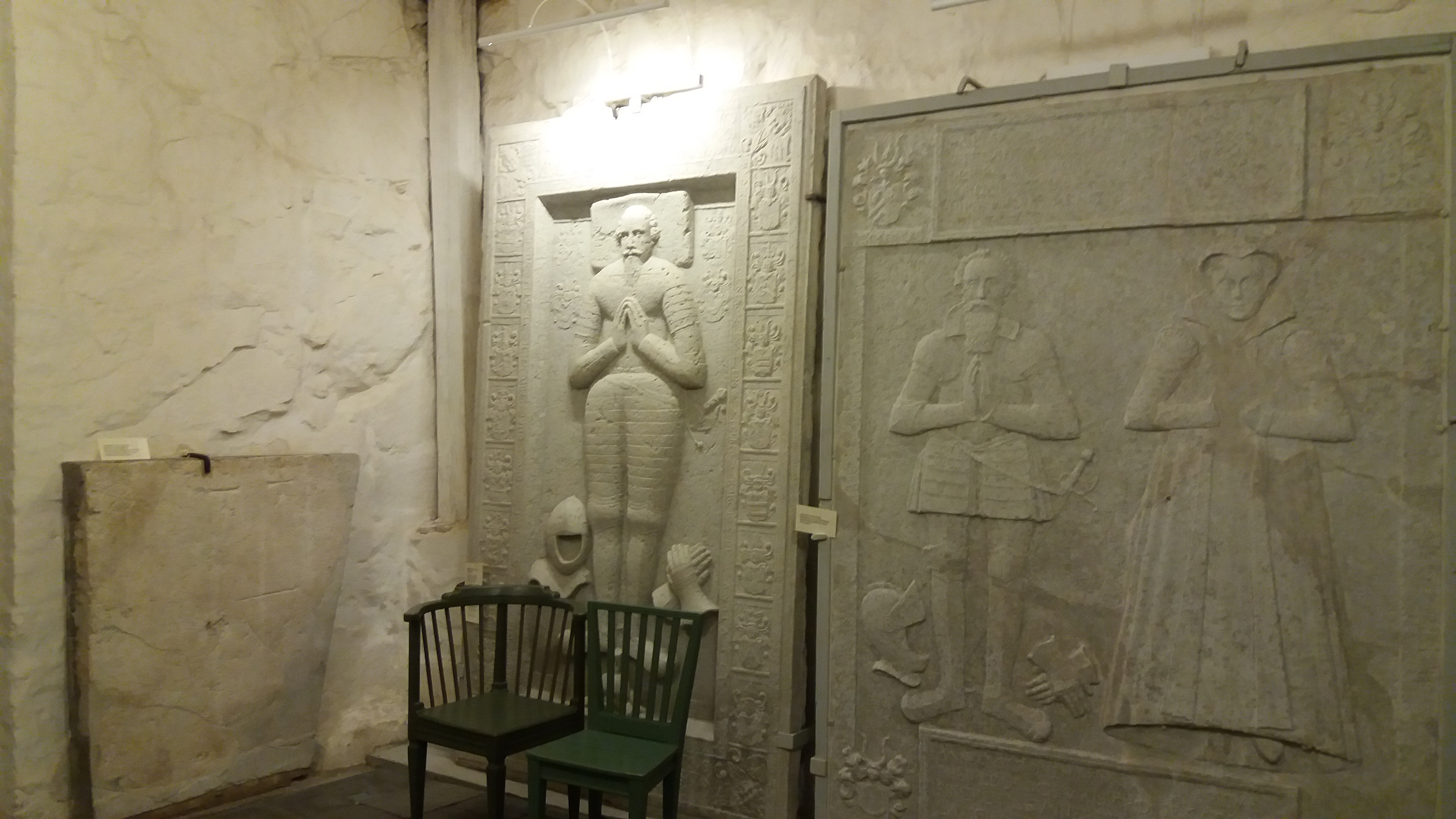 The gravestones of Axel Kurck (1555-1630), Gödik Fincke (1546-1617) and Elisabeth Boije in the St. Olof's Church, Ulvila, Finland.